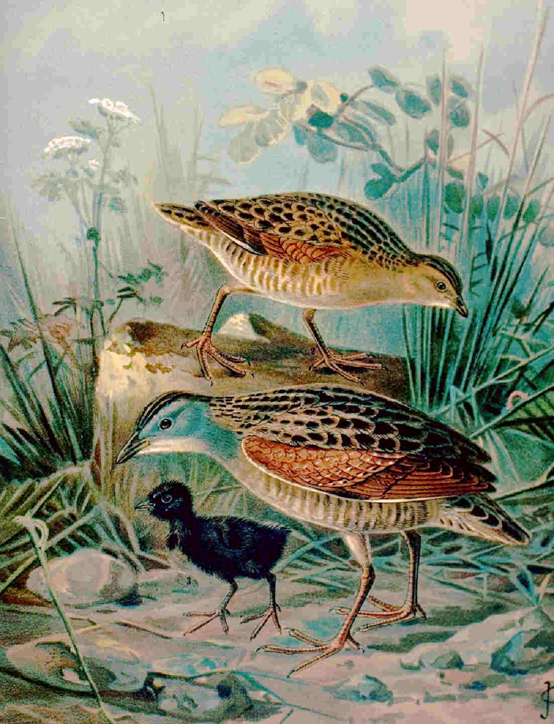 Drawing of the Corncrake from Naumann, Natural History of Birds in Central Europe, Volume VII, Table 15 - published 1899